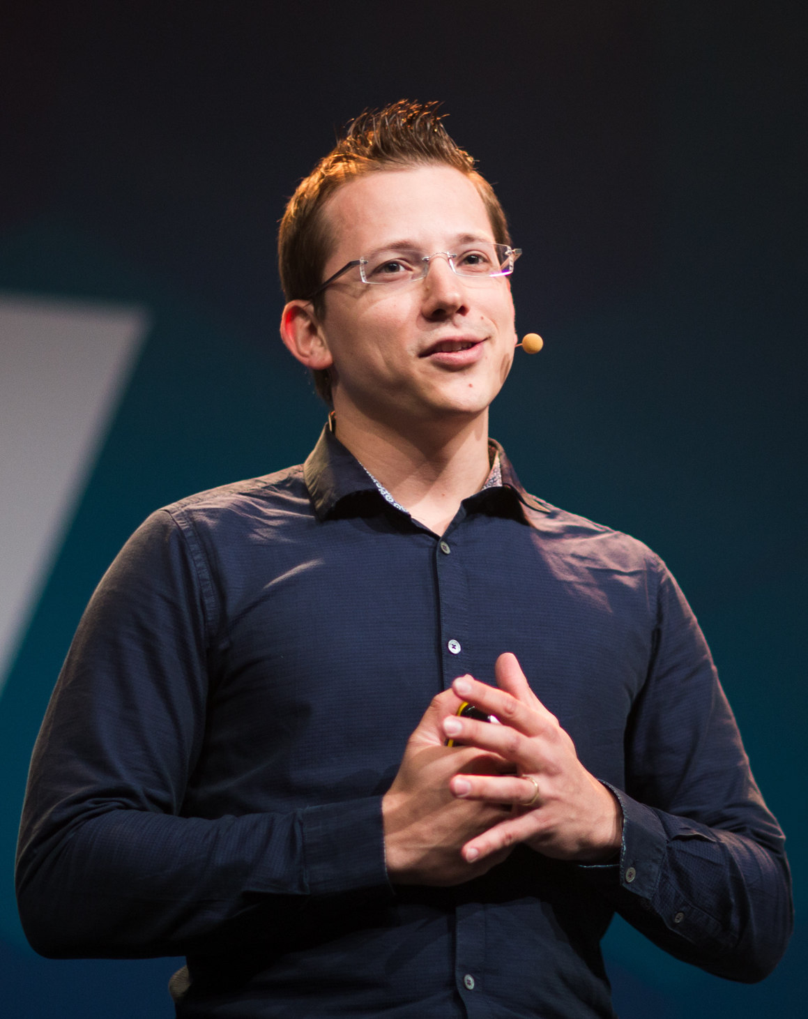 The Next Web Conference 2015